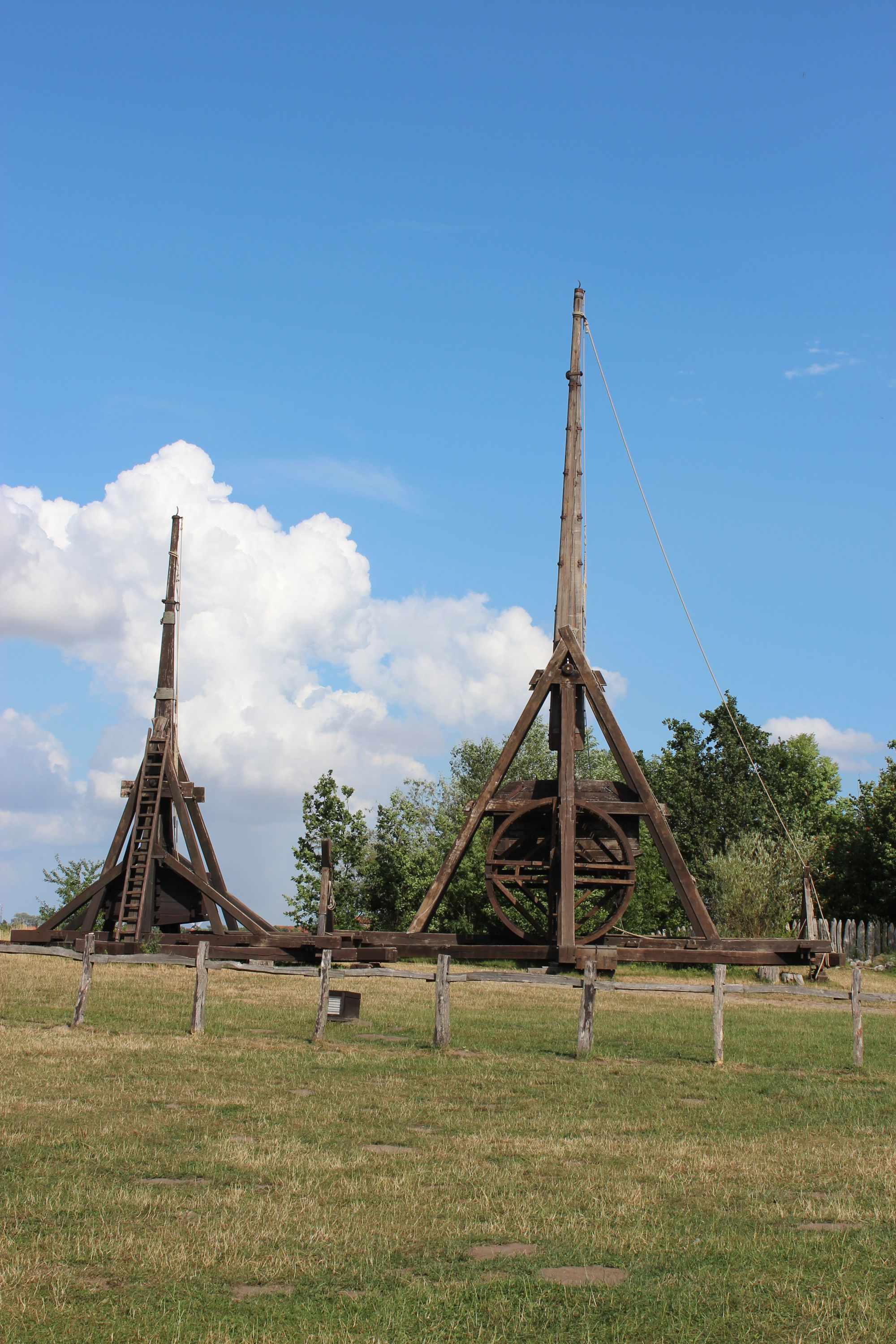 Trebuchets at Middelaldercentret (Middle Ages Centret) in Denmark